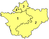 Cheshire ceremonial county with unitary authorities from 2009. 1 = Cheshire West and Chester (new) 2 = Cheshire East (new) 3 = Warrington (existing) 4 = Halton (existing)